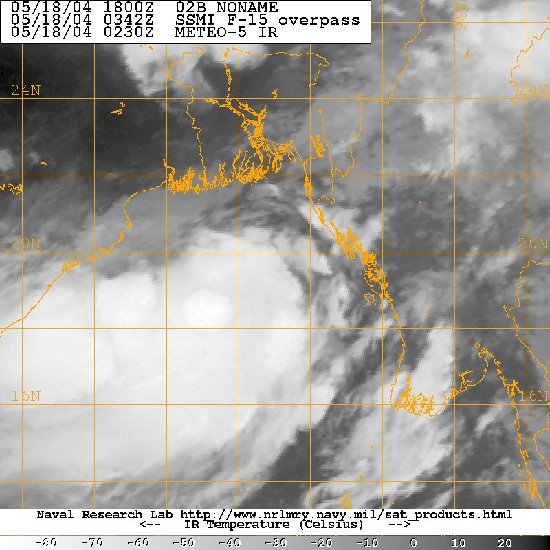 This Joint Typhoon Warning Center image shows Tropical Cyclone 2B before its Myanmar landfall in May.